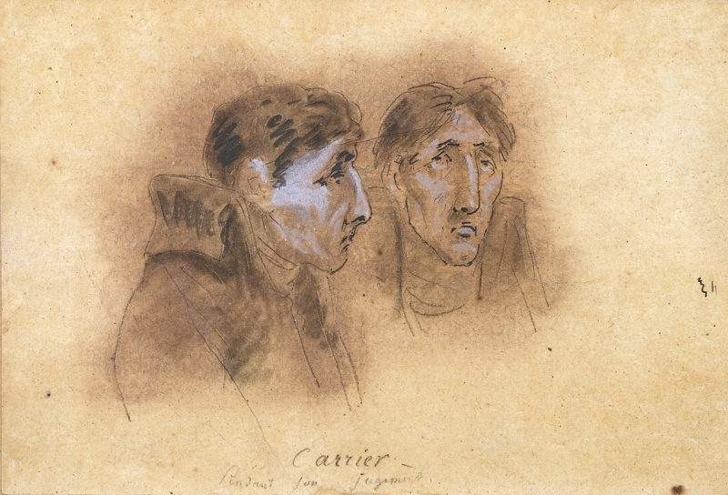 Carrier dessiné par Vivant Denon pendant son jugement